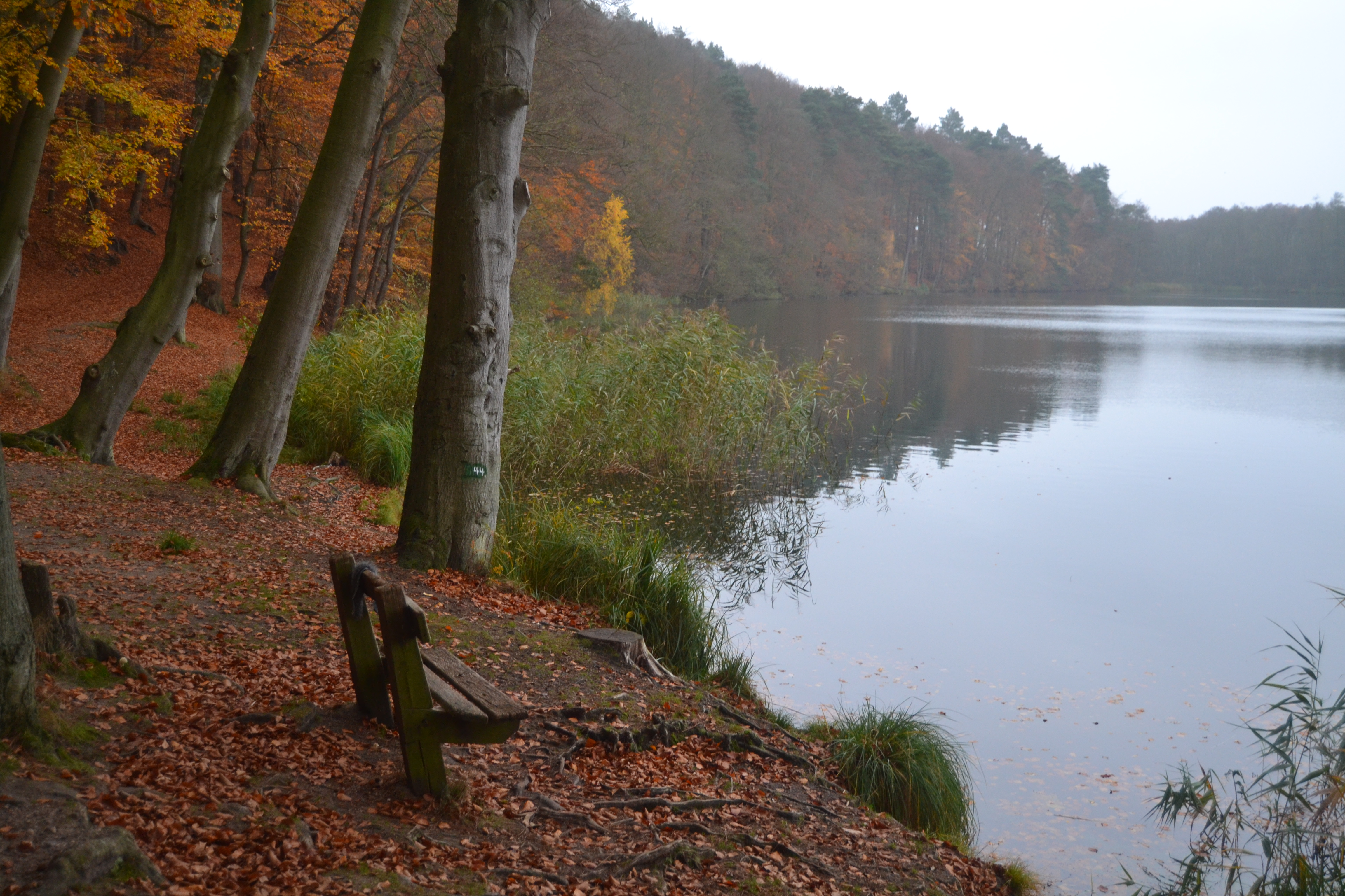 Mölln, Schleswig-Holstein, Germany: Schmalsee